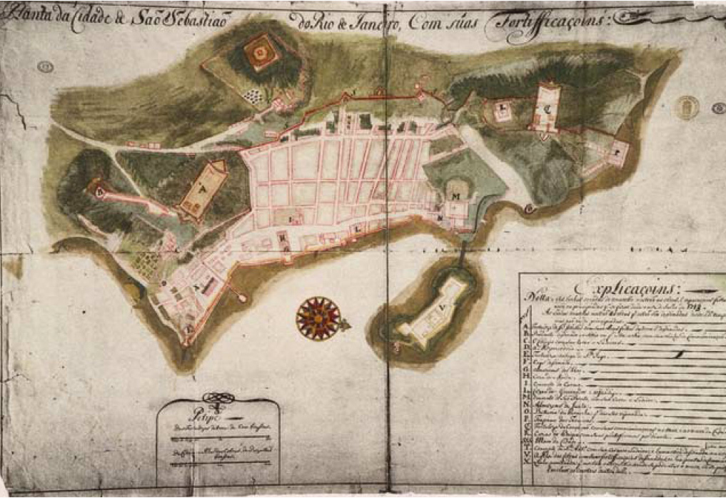 Fortification project for the city of Rio de Janeiro (Brazil)